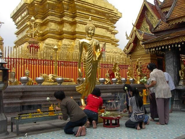 Thai Theravada Buddhists in Chiang Mai, Thailand. Srpskohrvatski / српскохрватски: Hram u Tajlandu.